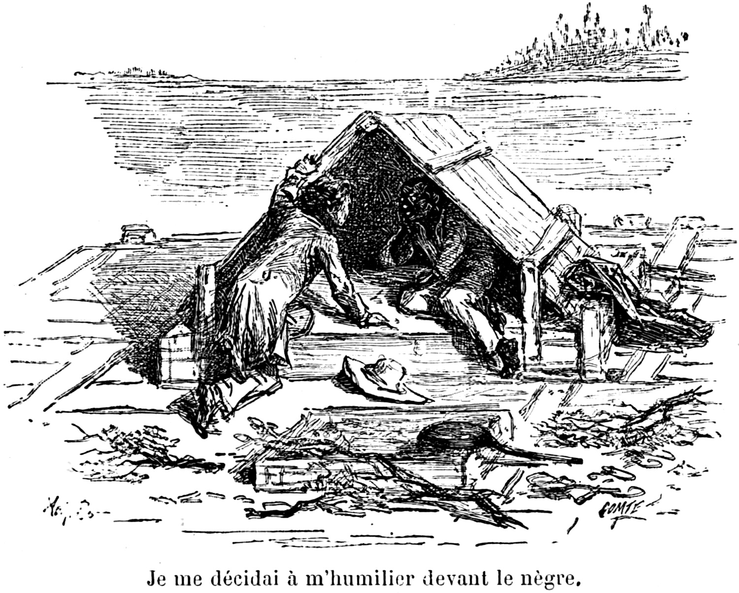 Mark Twain : Les Aventures de Huck Finn, illustrations Achille Sirouy